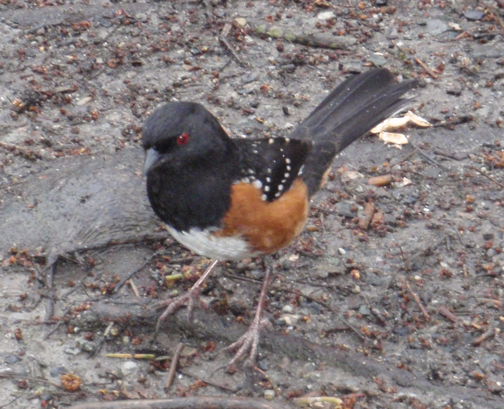 Image of a Spotted Towhee, aka Pipilo maculatus in Stanley Park. The original image was cropped with Photoshop.